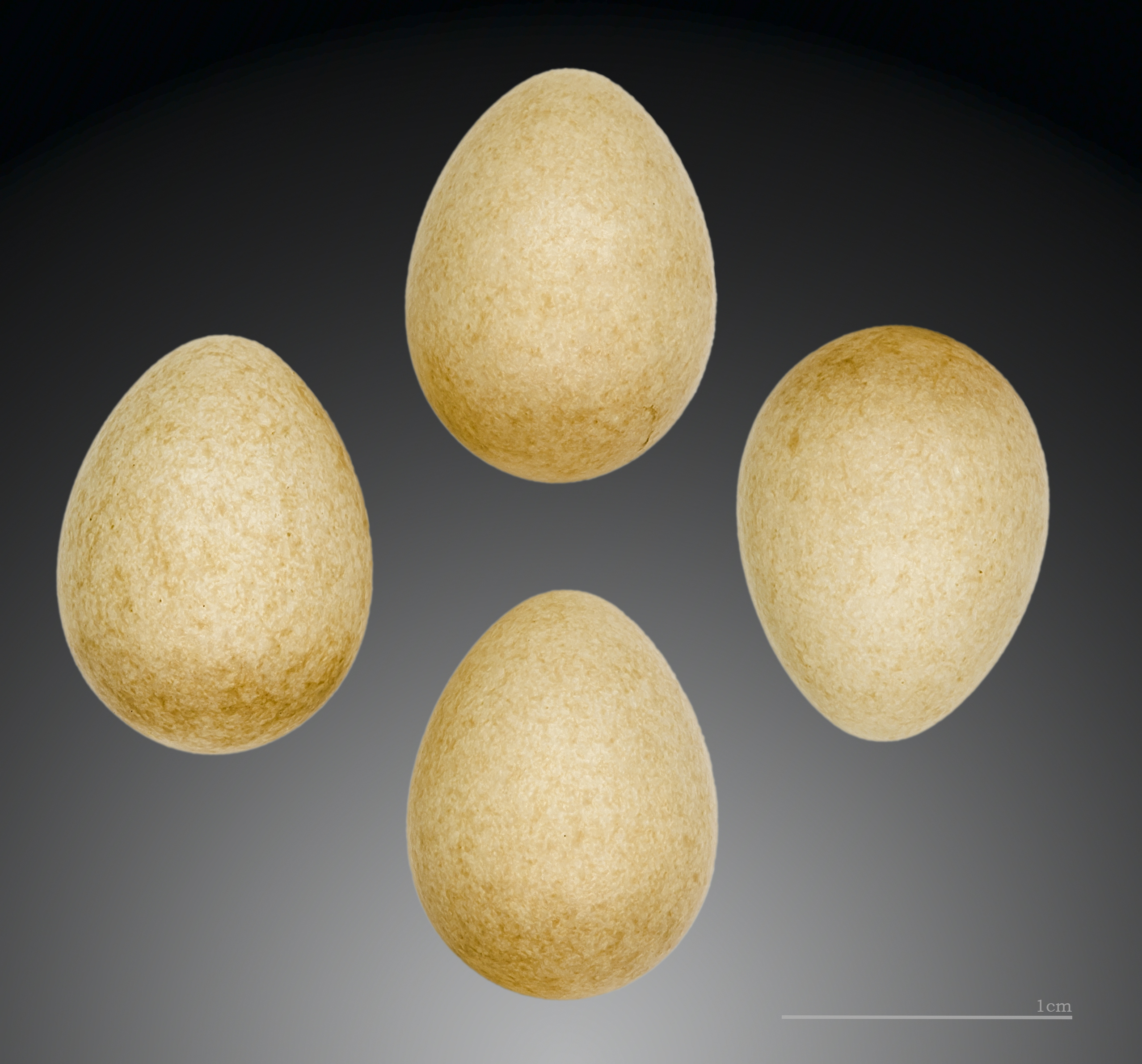 Egg of Goldcrest. Collection of Jacques Perrin de Brichambaut.